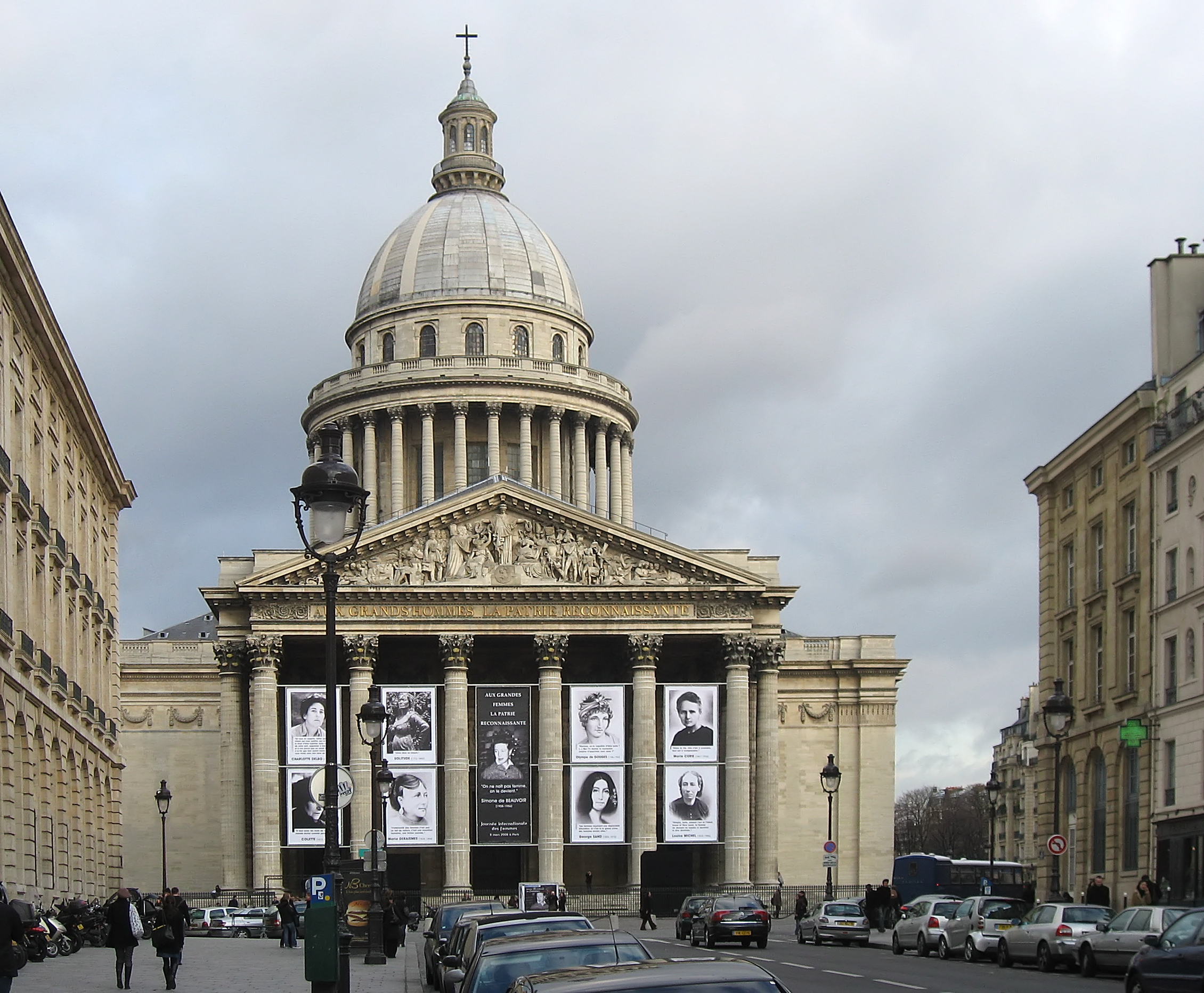 Pantheon in the city of Paris